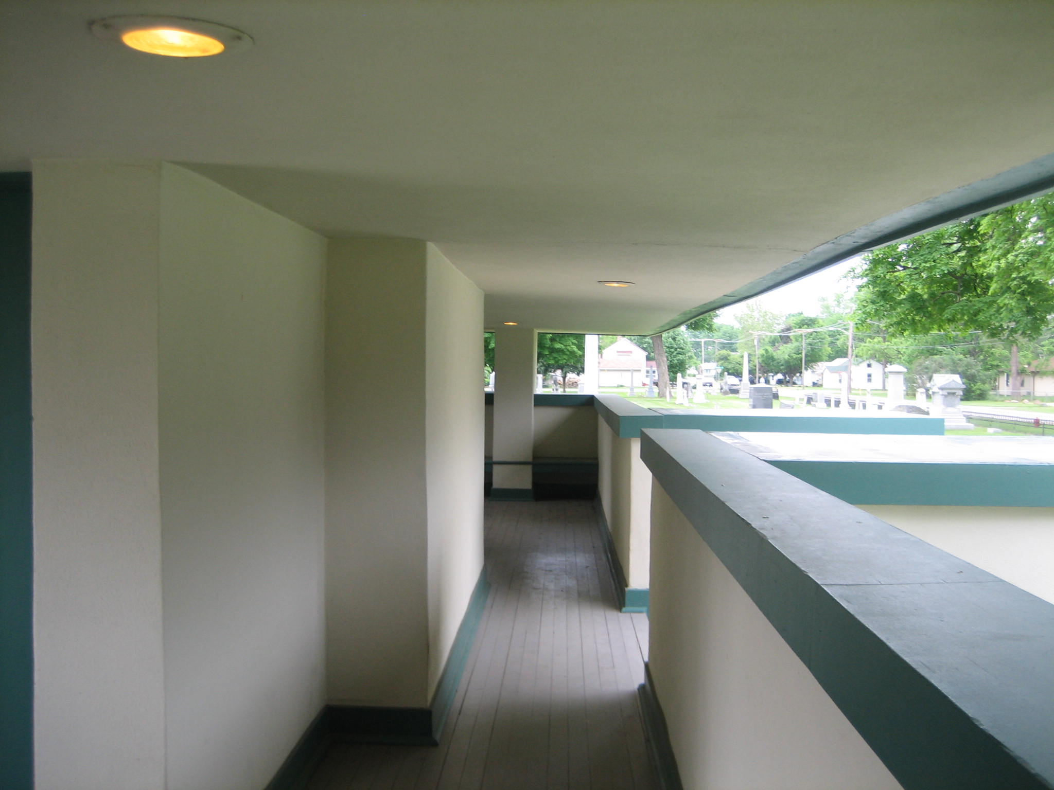 Exterior porch, Pettit Memorial Chapel, designed by Frank Lloyd Wright. Belvidere Cemetery, Belvidere, Illinois. National Register of Historic Places.